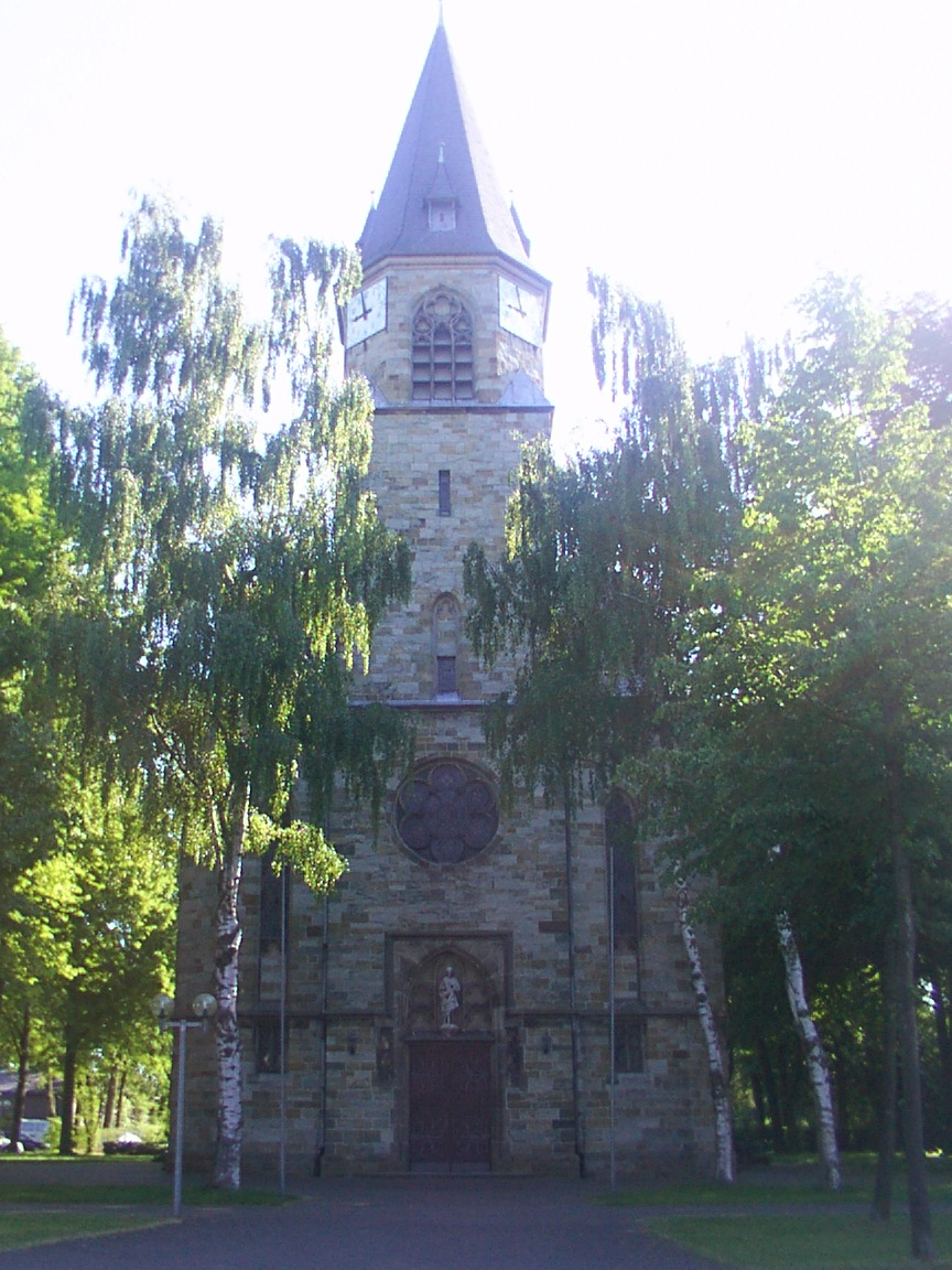 Delbrück: Catholic Church "Herz Jesu" in Lippling